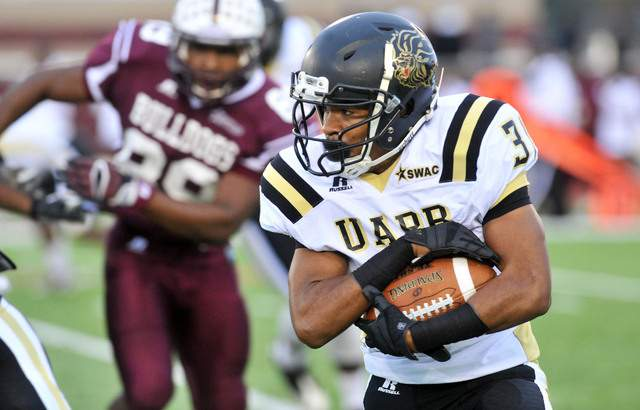 Andre Mitchell Uapb